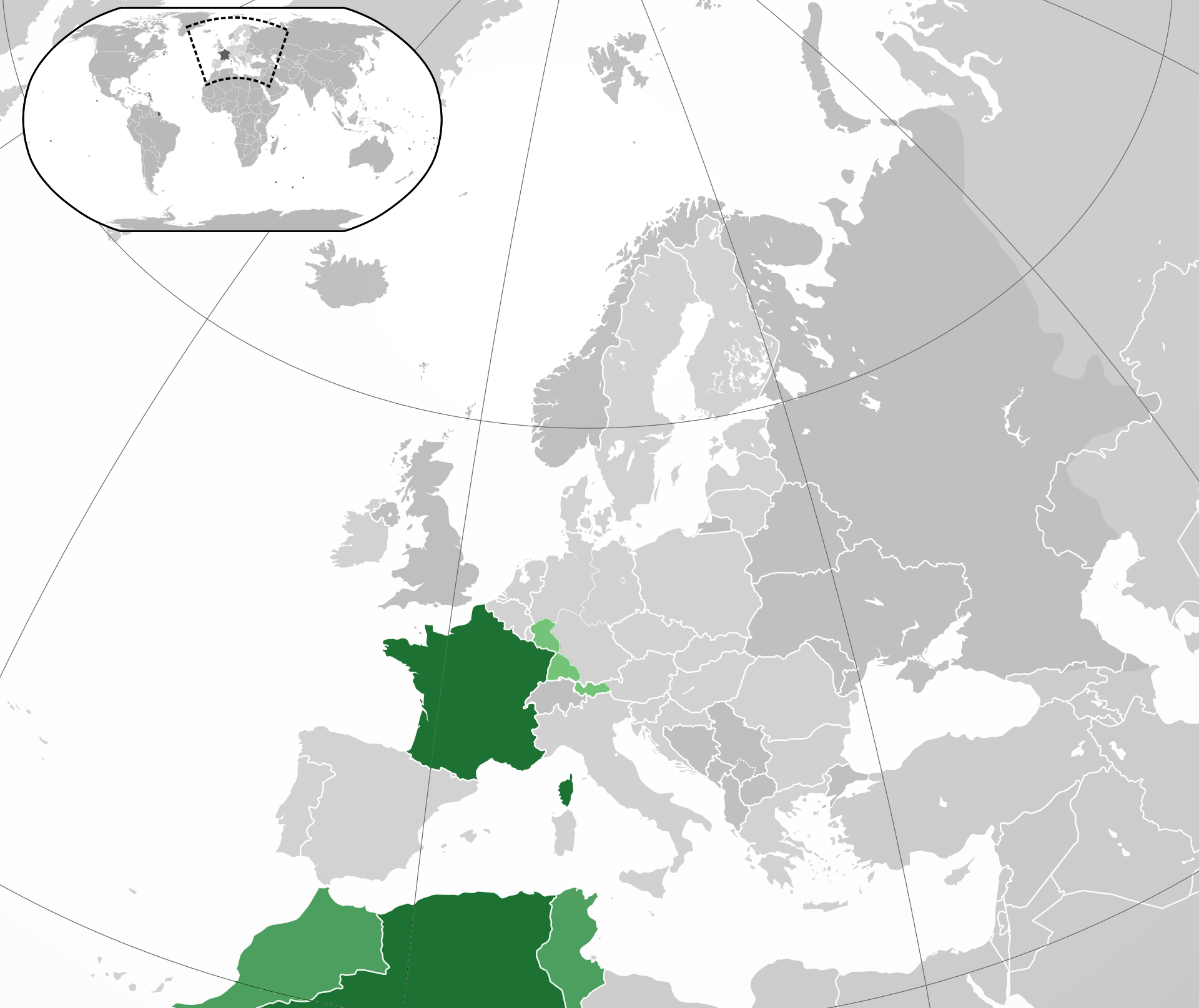 France between 1945 and 1949 with its colonies and its occupation zones in Germany and Austria. This is the 1946-1957 version of France (1946-1957).